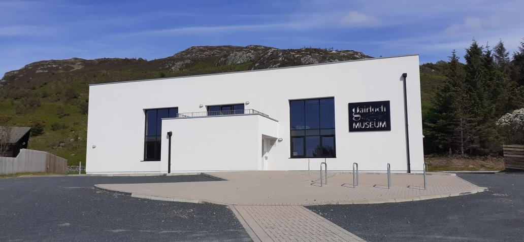 External shot of the new Gairloch Museum Gàidhlig: Taobh a-muigh Taigh-tasgaidh ùr Gairloch